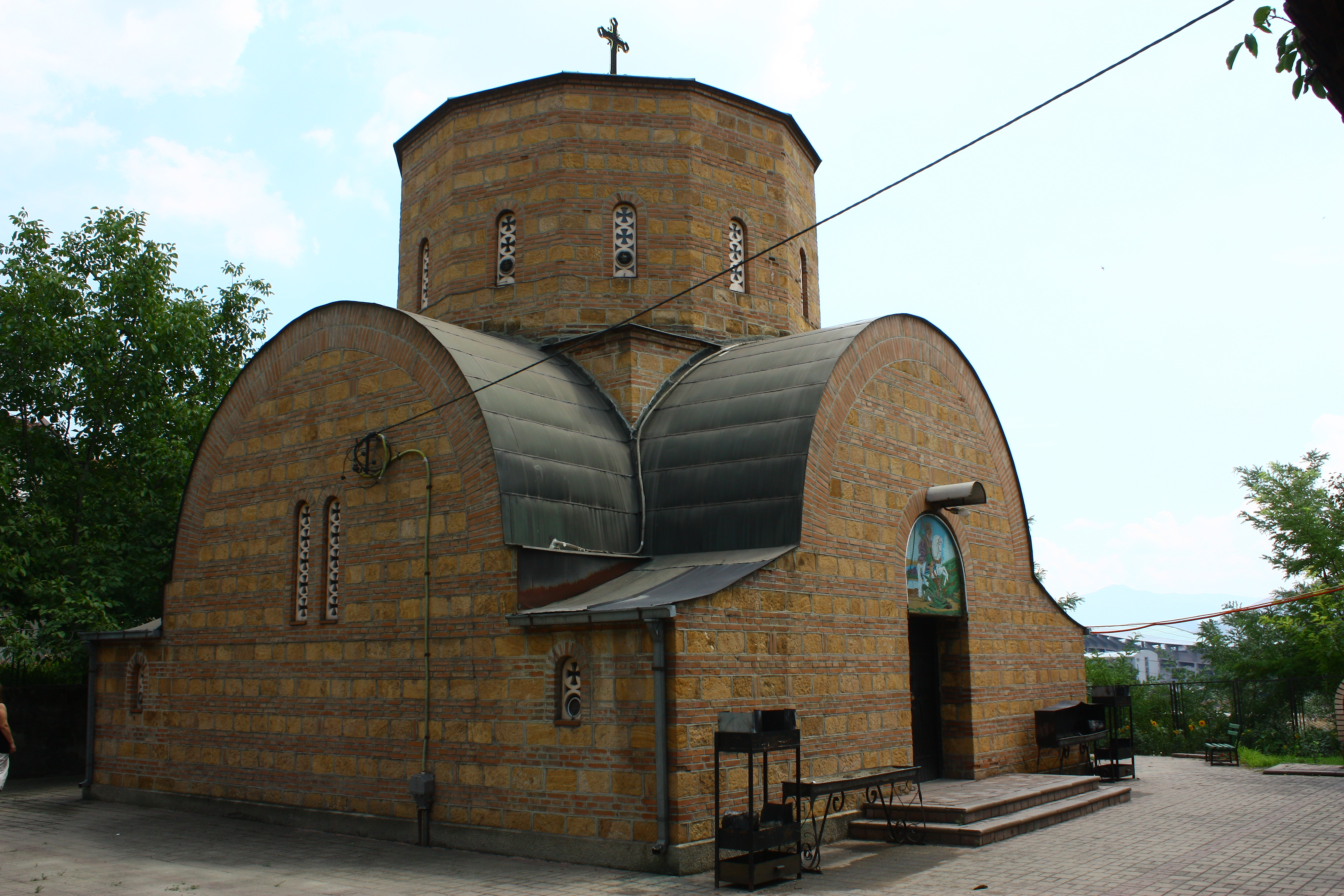 St. George's Church in Krivi Dol, Skopje, Macedonia This image is uploaded as part of the picture contest Wiki Loves Cultural Heritage in Macedonia 2013. English | македонски | +/−